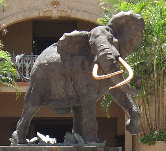 A statue of Shawu, one of the Magnificent Seven Elephants, at the Palace of the Lost City, Sun City (South Africa).